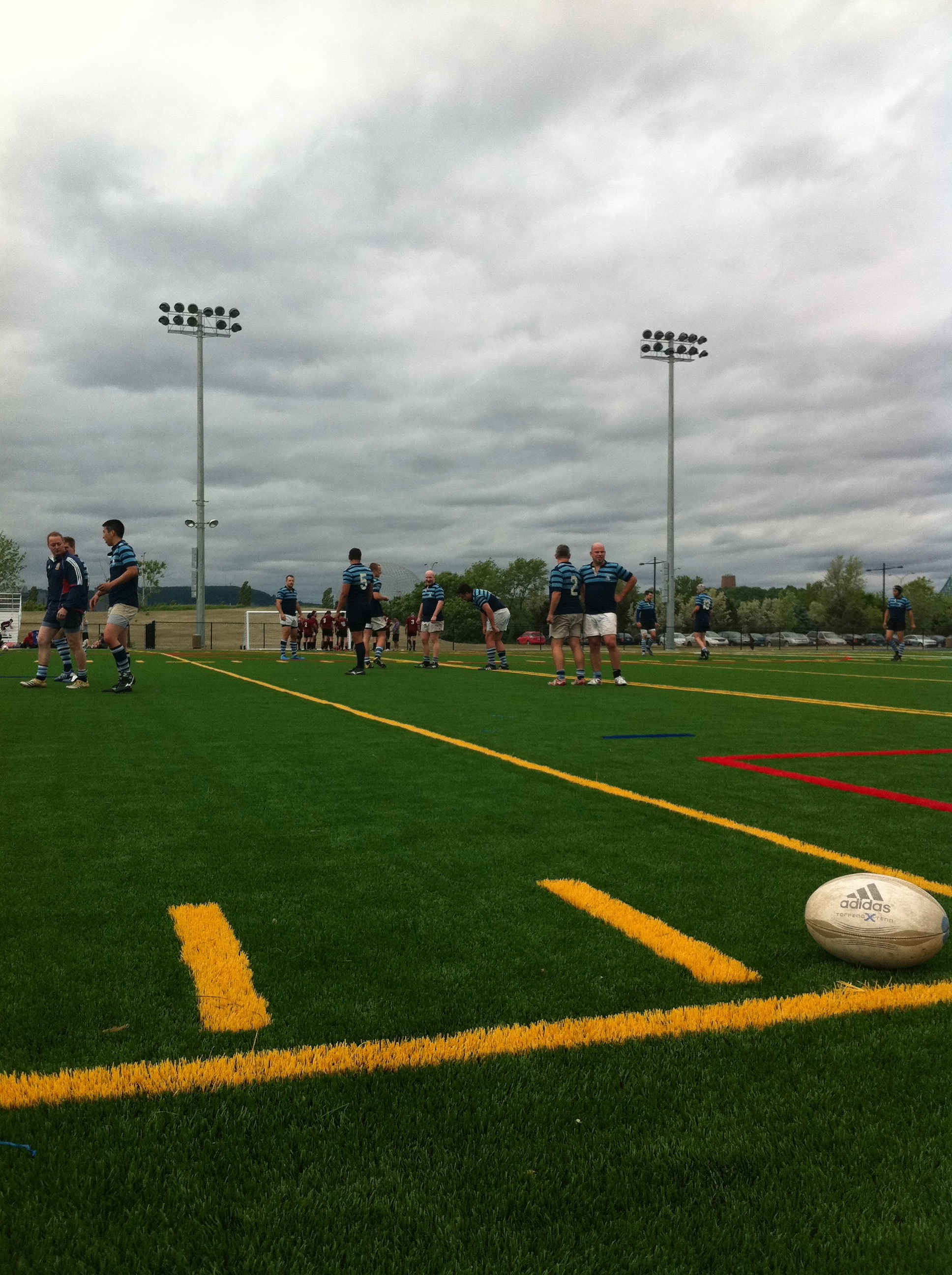 Rugby at Seawaypark, Saint-Lambert